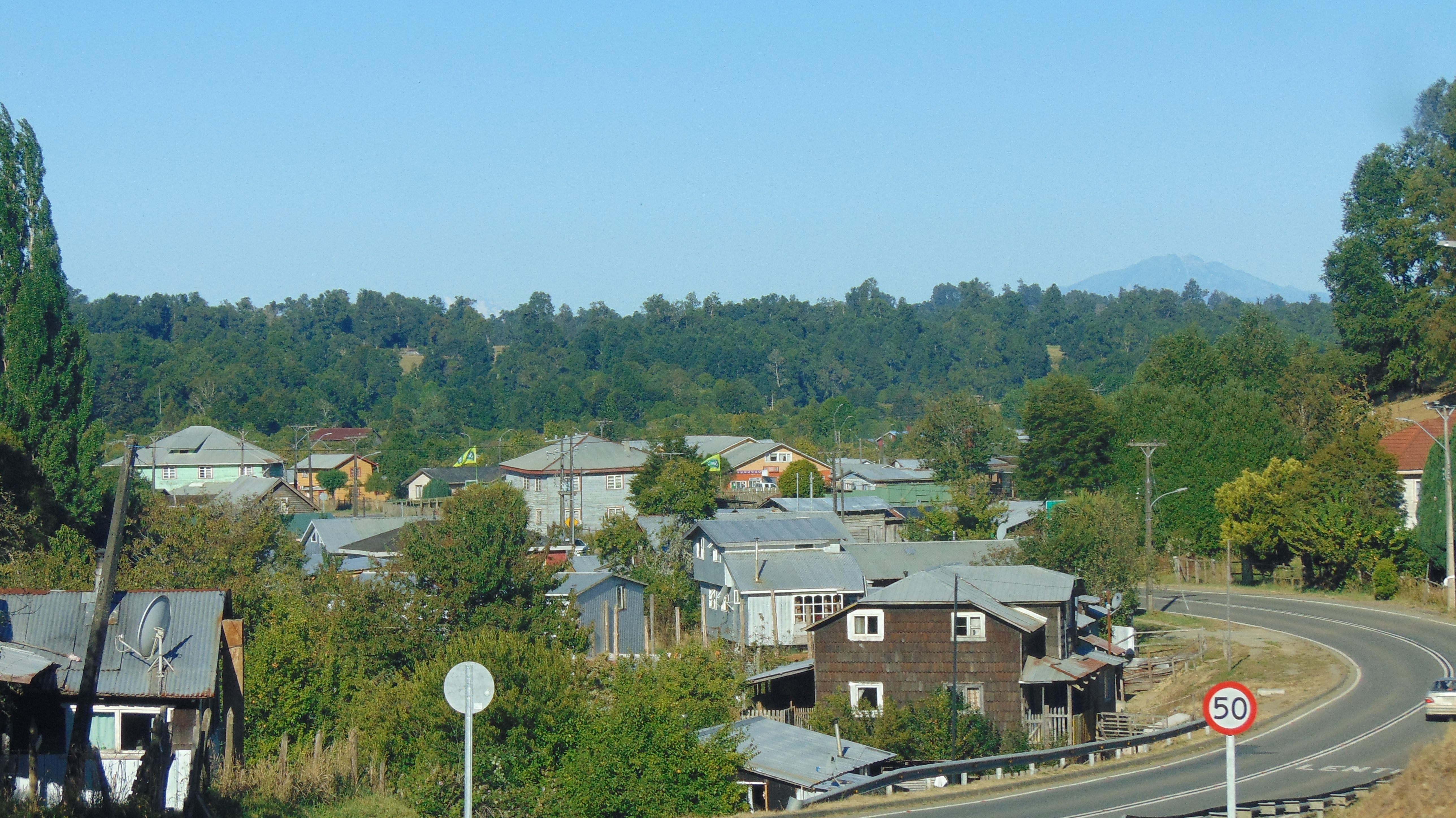 Cañitas, Los Muermos, Chile